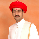 Source: Swaminarayan Sampraday [1] Acharya Maharajshri Koshalendraprasad Pande is 7th descendant of Bhagwan Shree Swaminarayan and current Acharya Maharaj of Shree NarNarayan Dev diocese in Ahmedabad, Gujarat - INDIA Author: Jay Swaminarayan